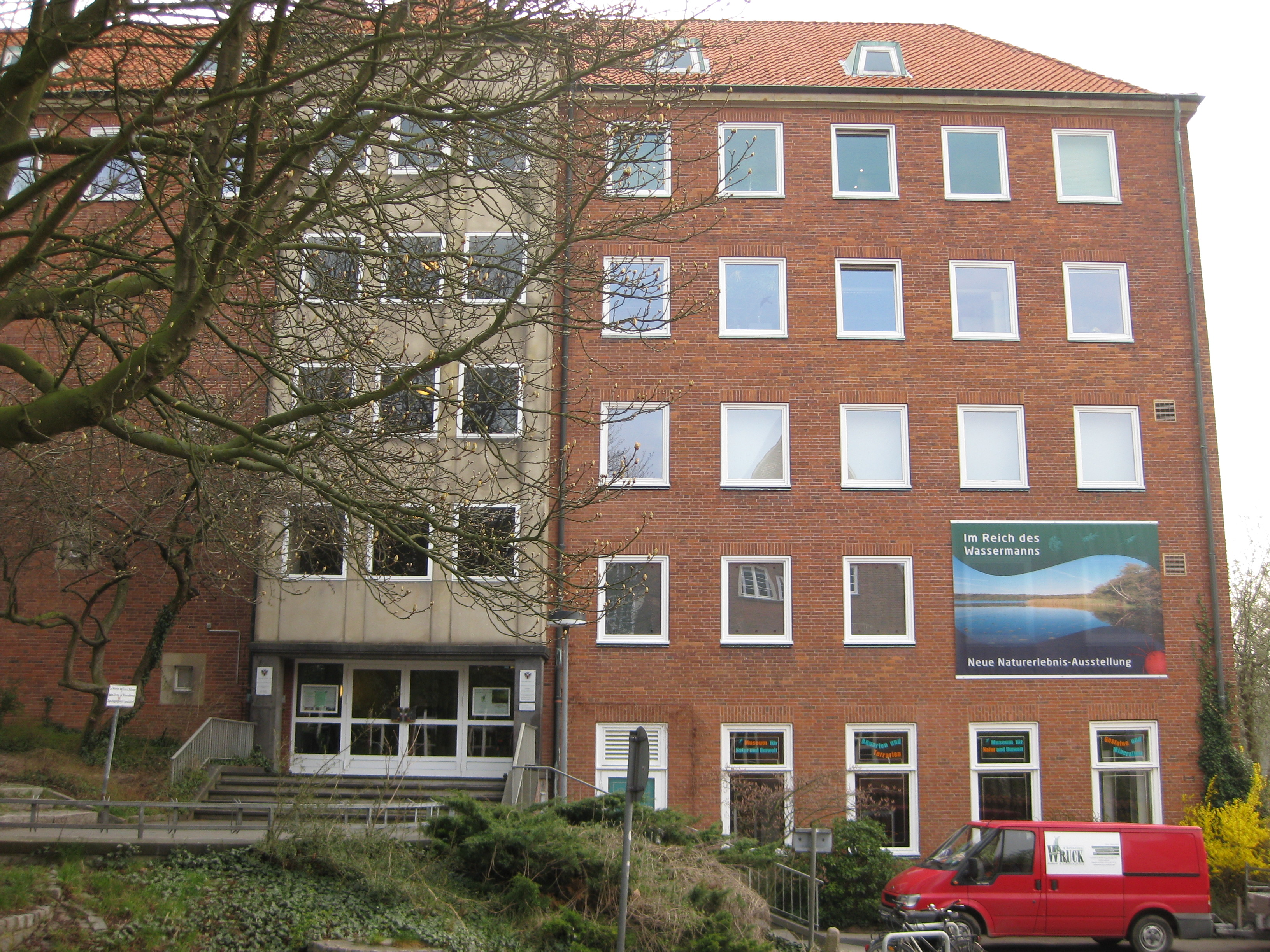 Building of the Archiv der Hansestadt Lübeck